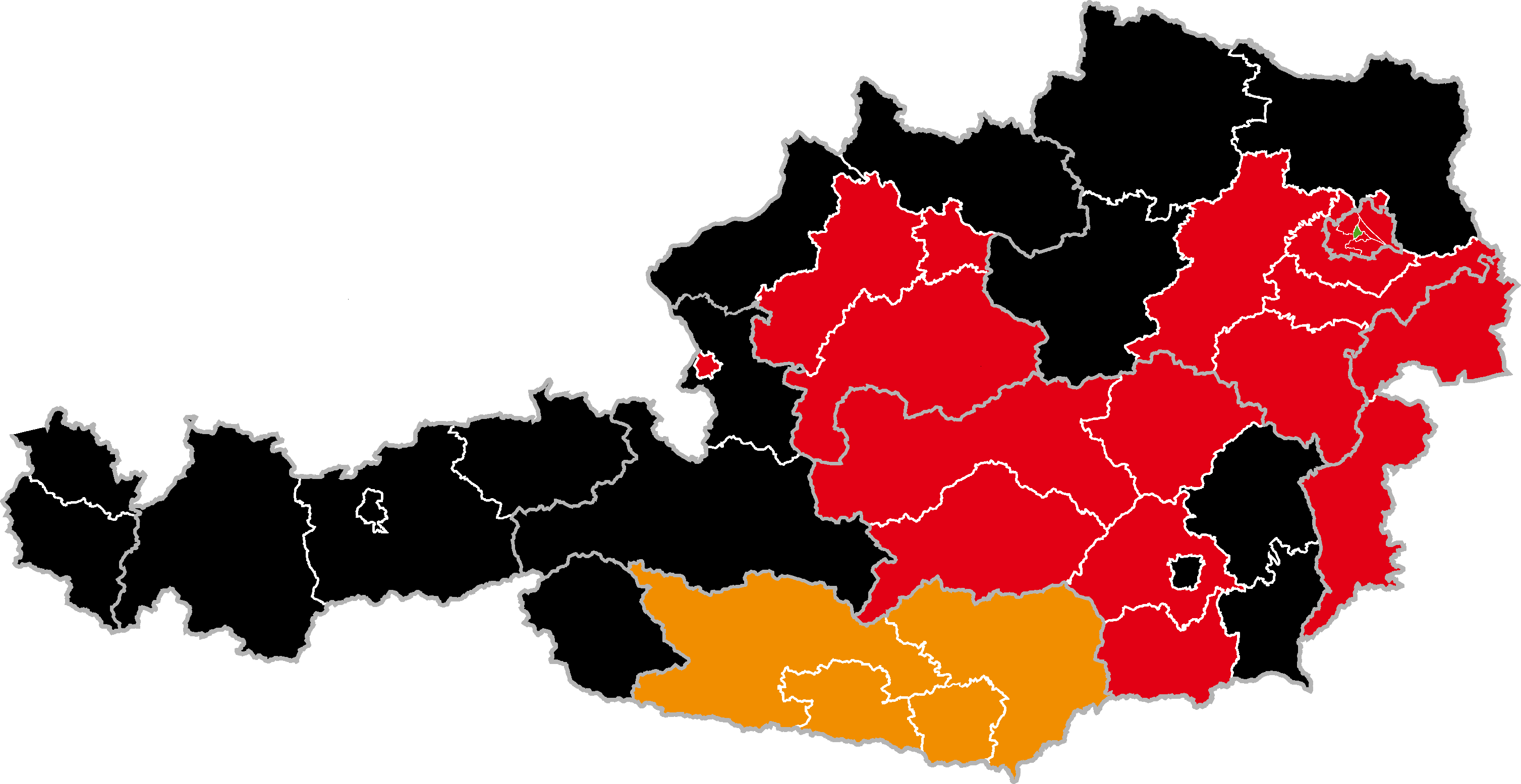 Austrian legislative election 2008 result by regional constituency